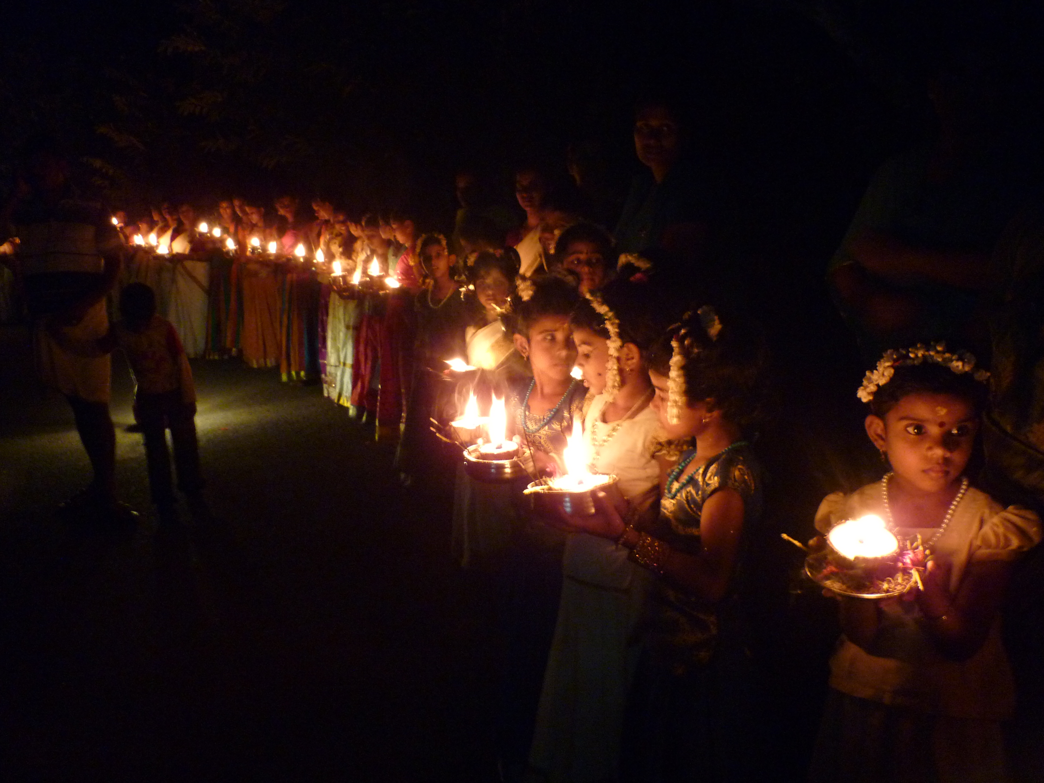 A Festival in Kerala